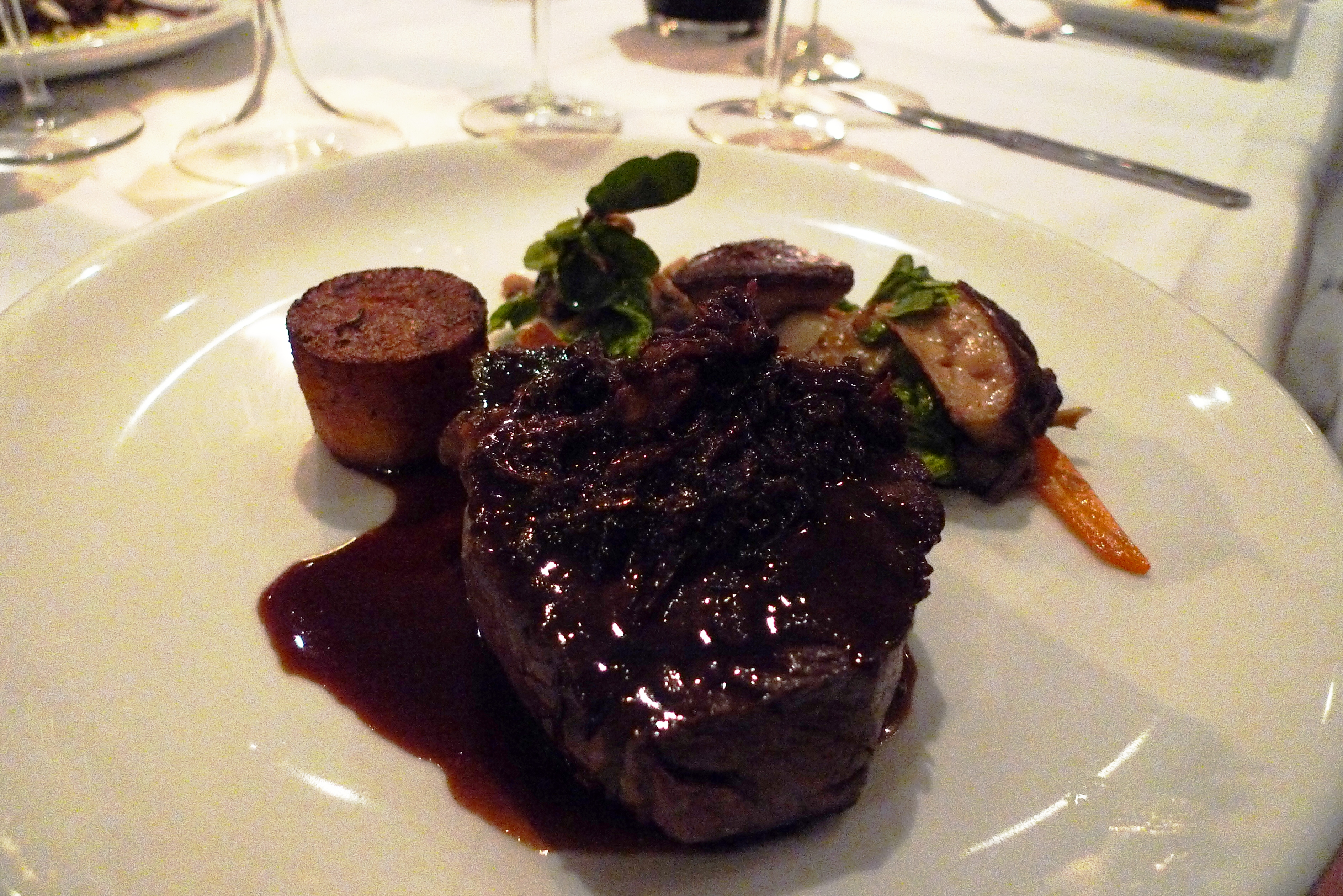 A sirloin of beef with seared foie gras, served with fondant potato, glazed vegetables, oxtail and hermitage wine sauce. I should really have taken a photo of the inside of the meat, but it was decent quality. At Patterson's, Mill Street.